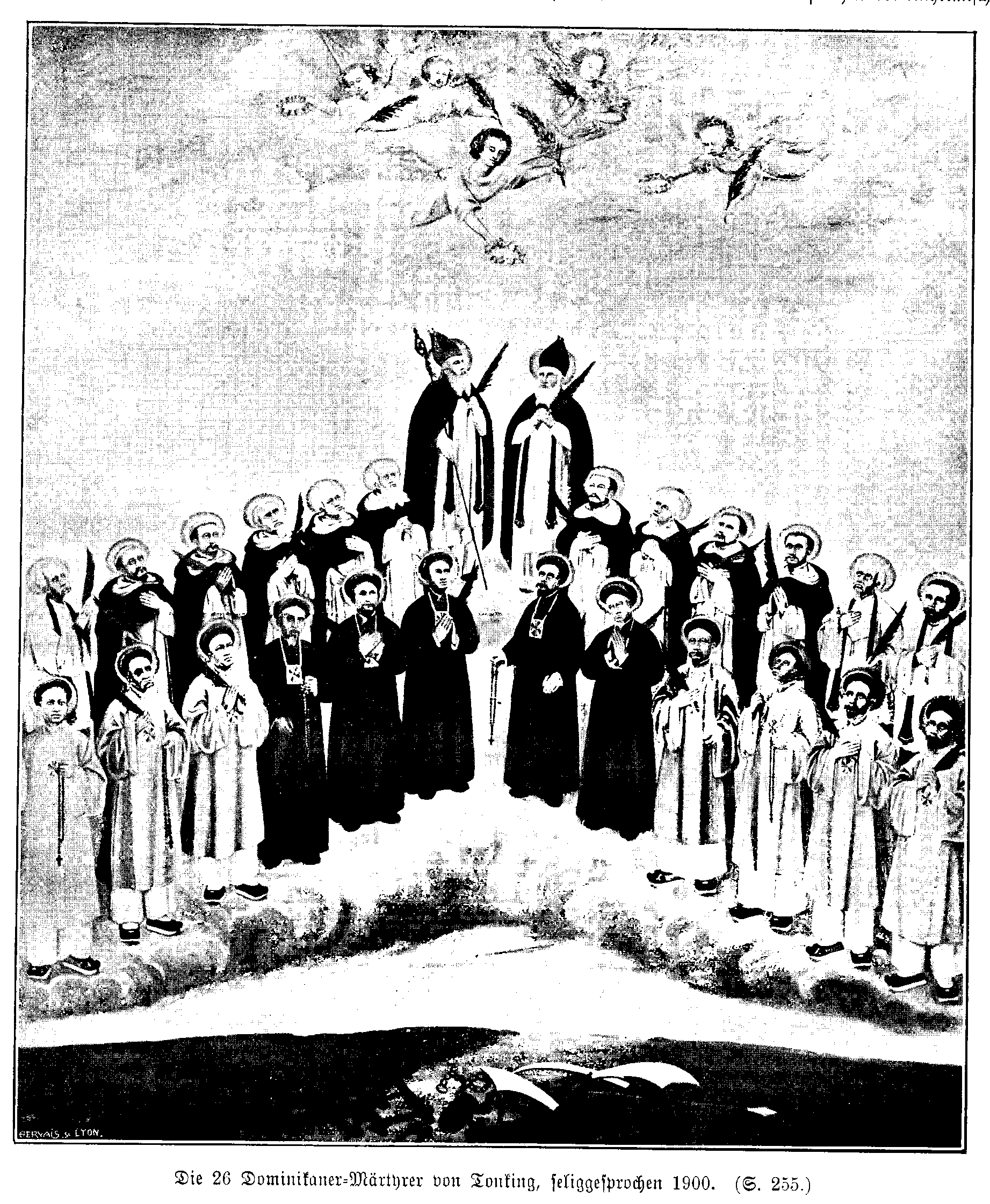 Pic of Martyrs in Tonking, beatified in 1900